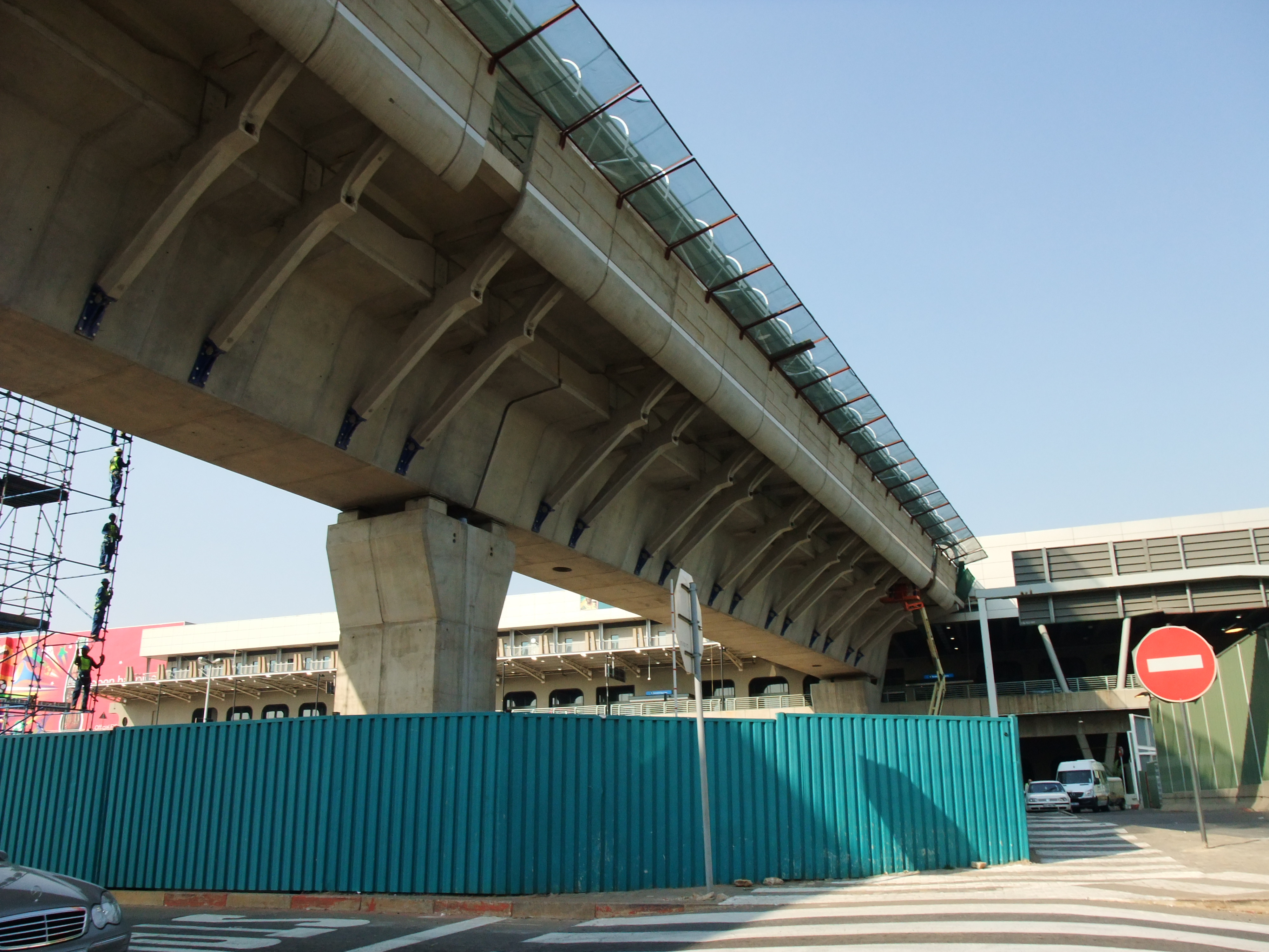 Construction of the Gautrain viaduct entering the terminal building at OR Tambo International airport